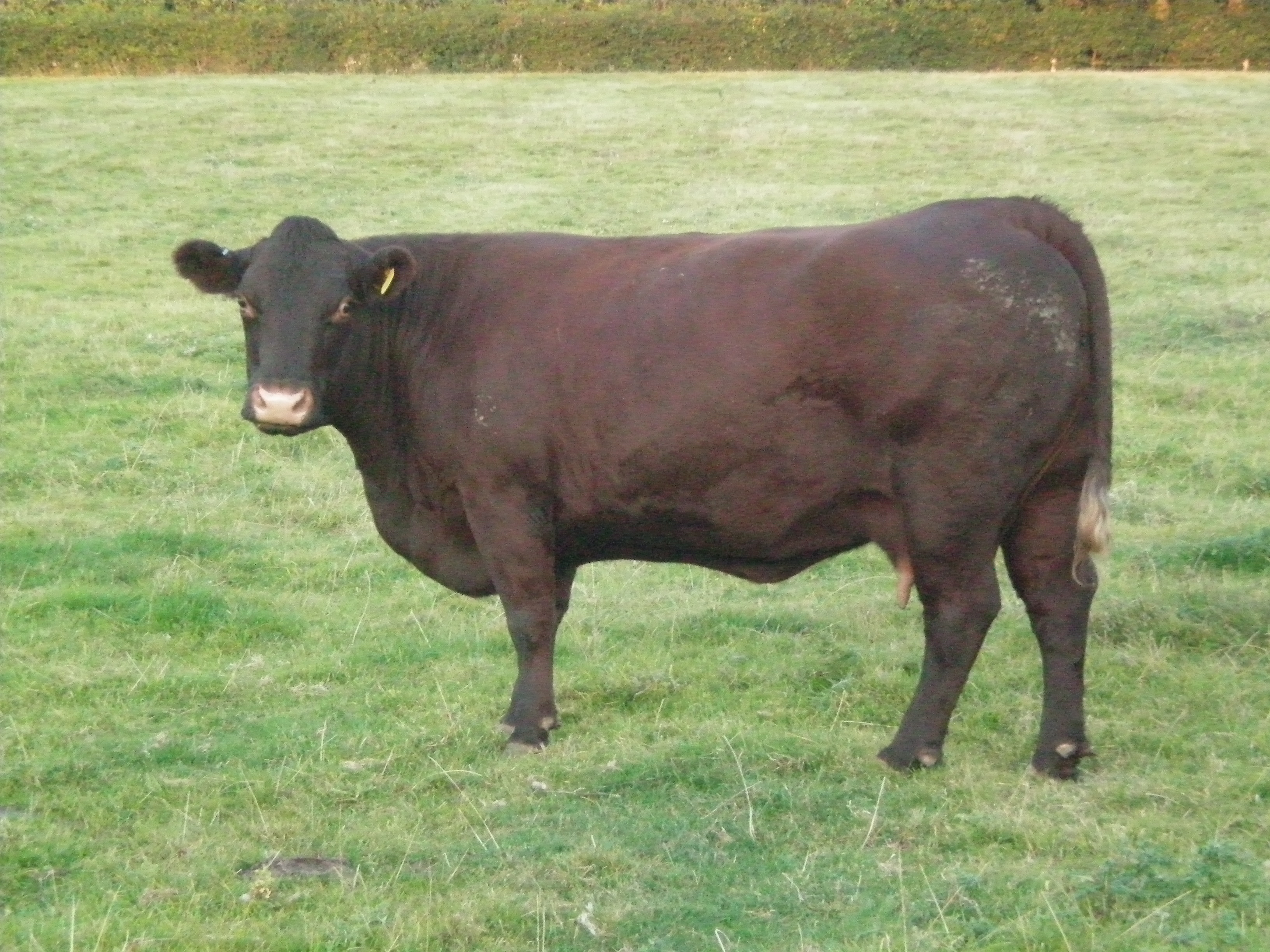 Sussex breed cow seen near Petworth, West Sussex, England.